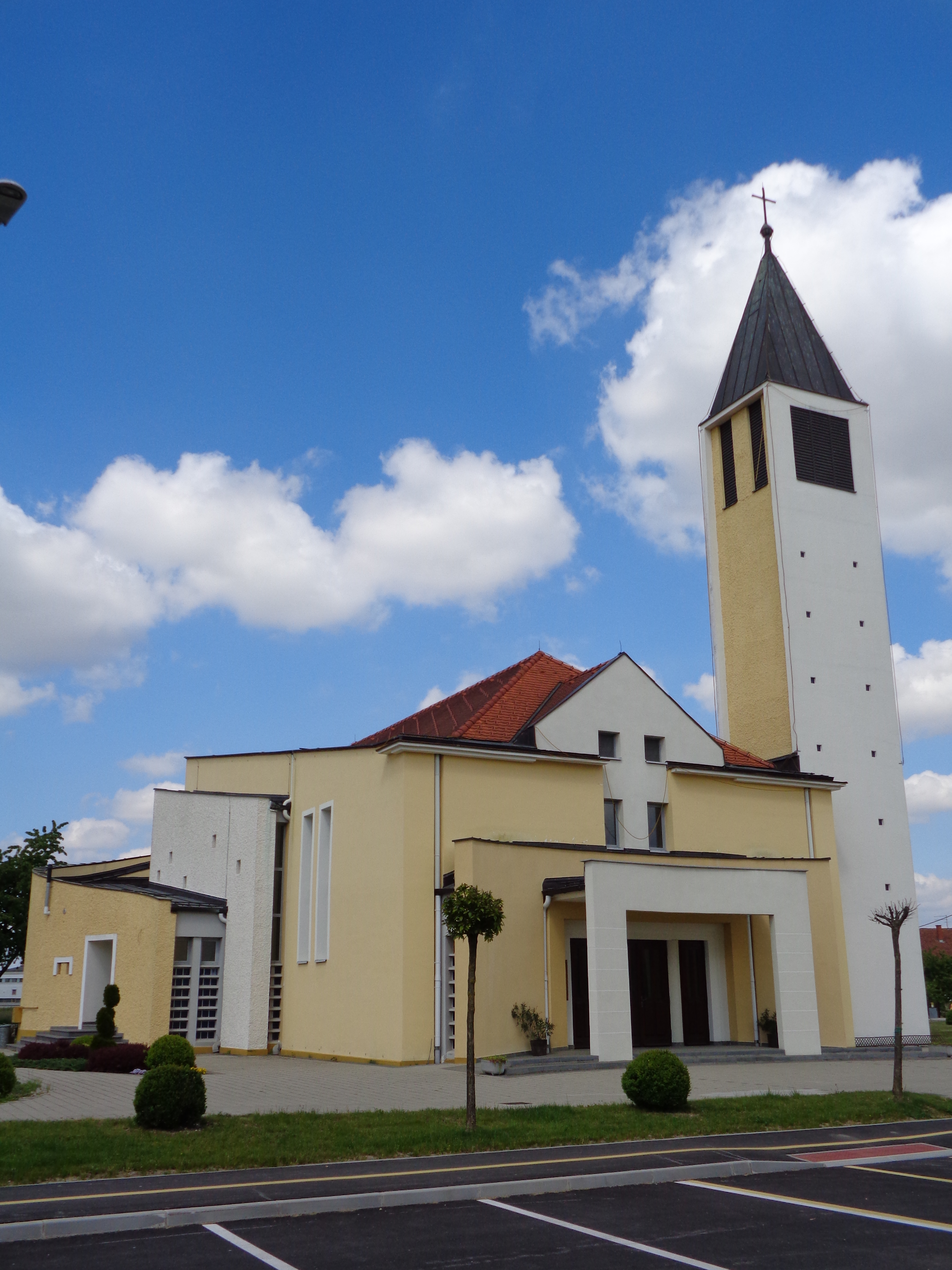 Virgin Mary the Queen church, Savska Ves, Croatia - southwest view